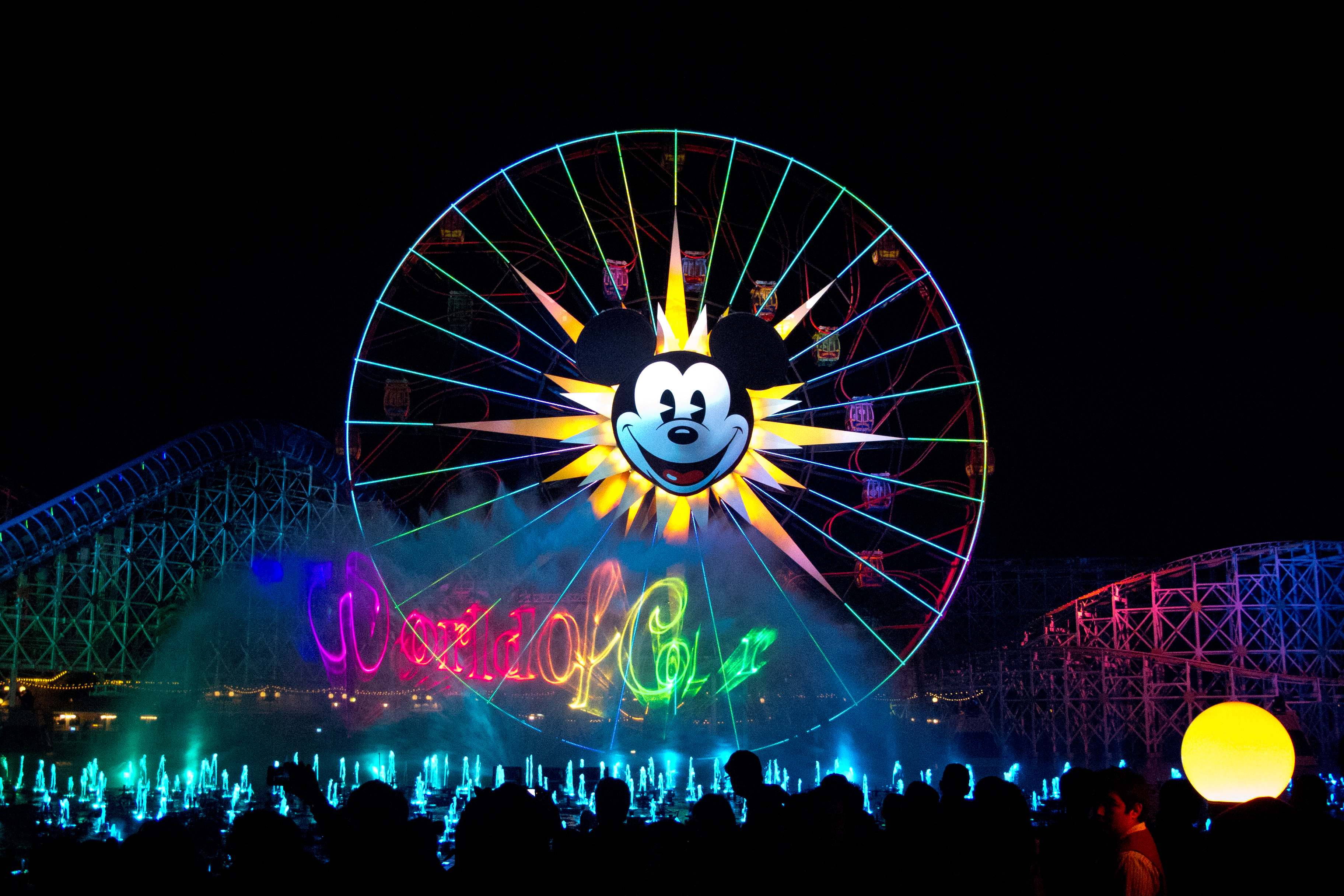 A view of the spectacular World of Color show at Disney California Adventure.